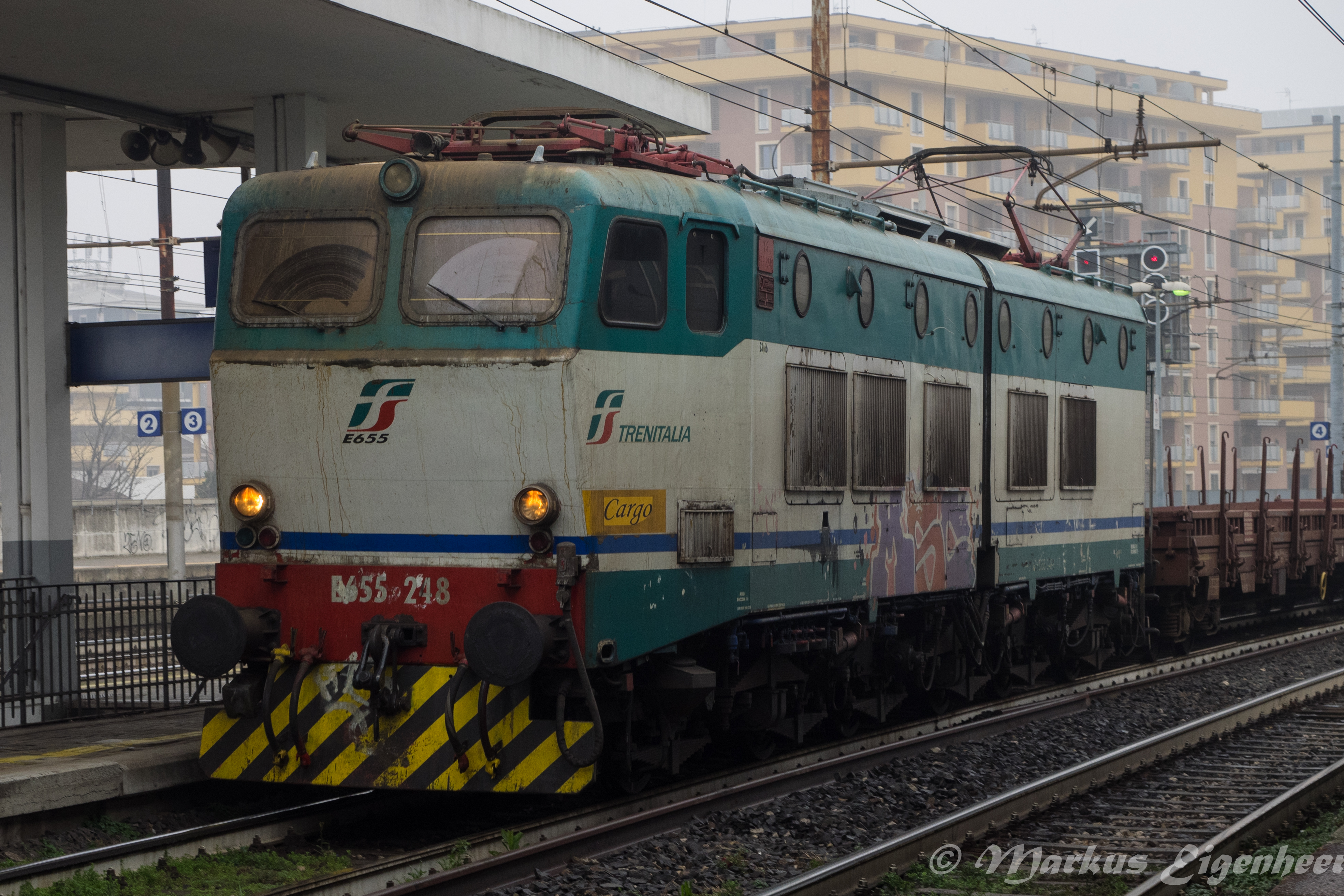 Milano Lambrate 02.02.2016